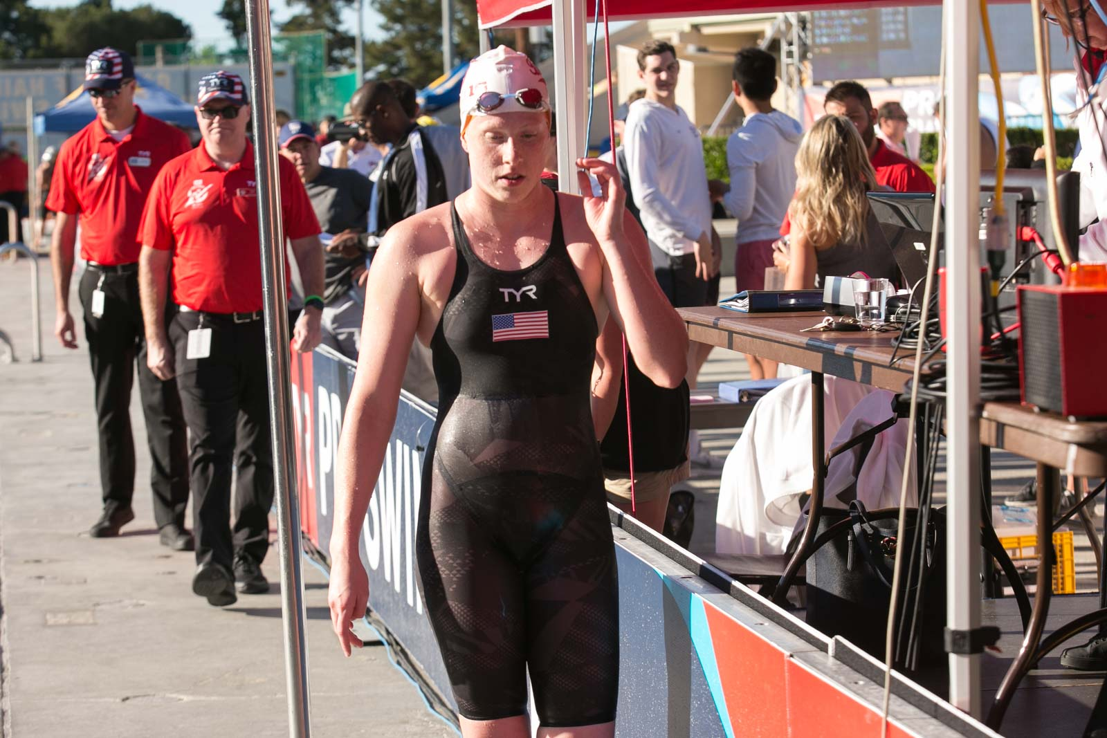 Lilly King after winning